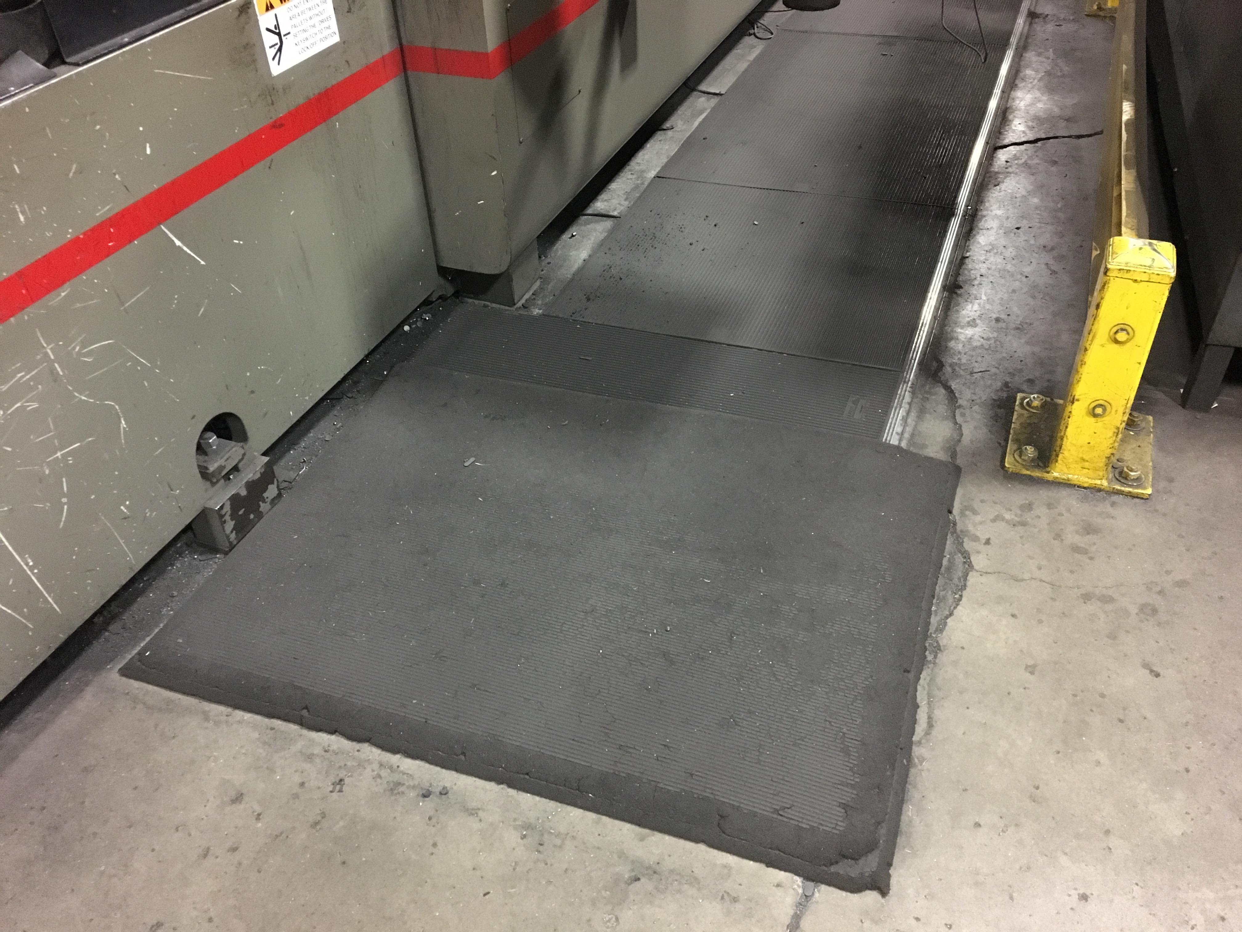 Pressure Sensitive Mat prevents operator from accessing hazardous areas around laser cutter.